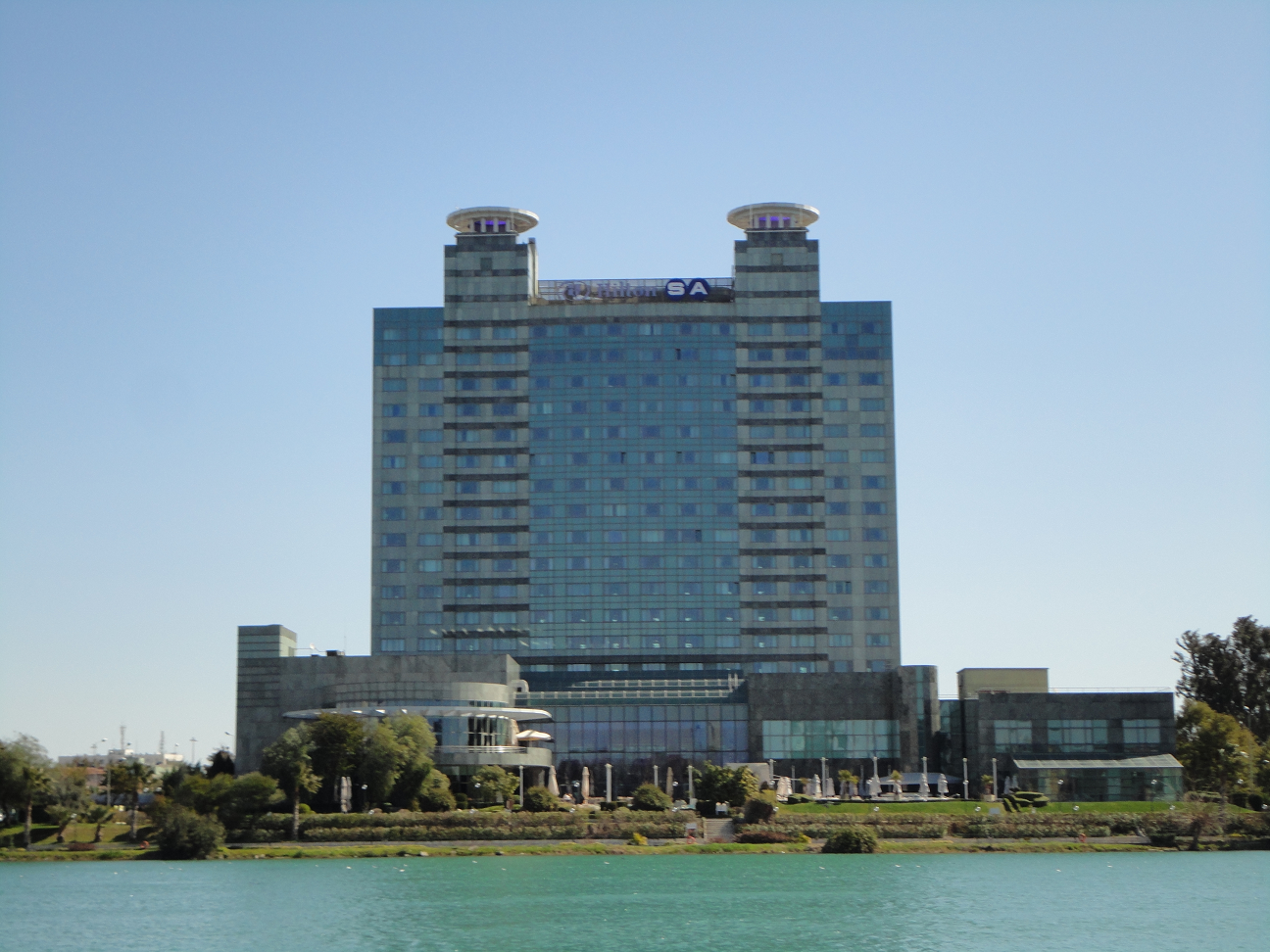 Adana Hilton in Yüreğir district